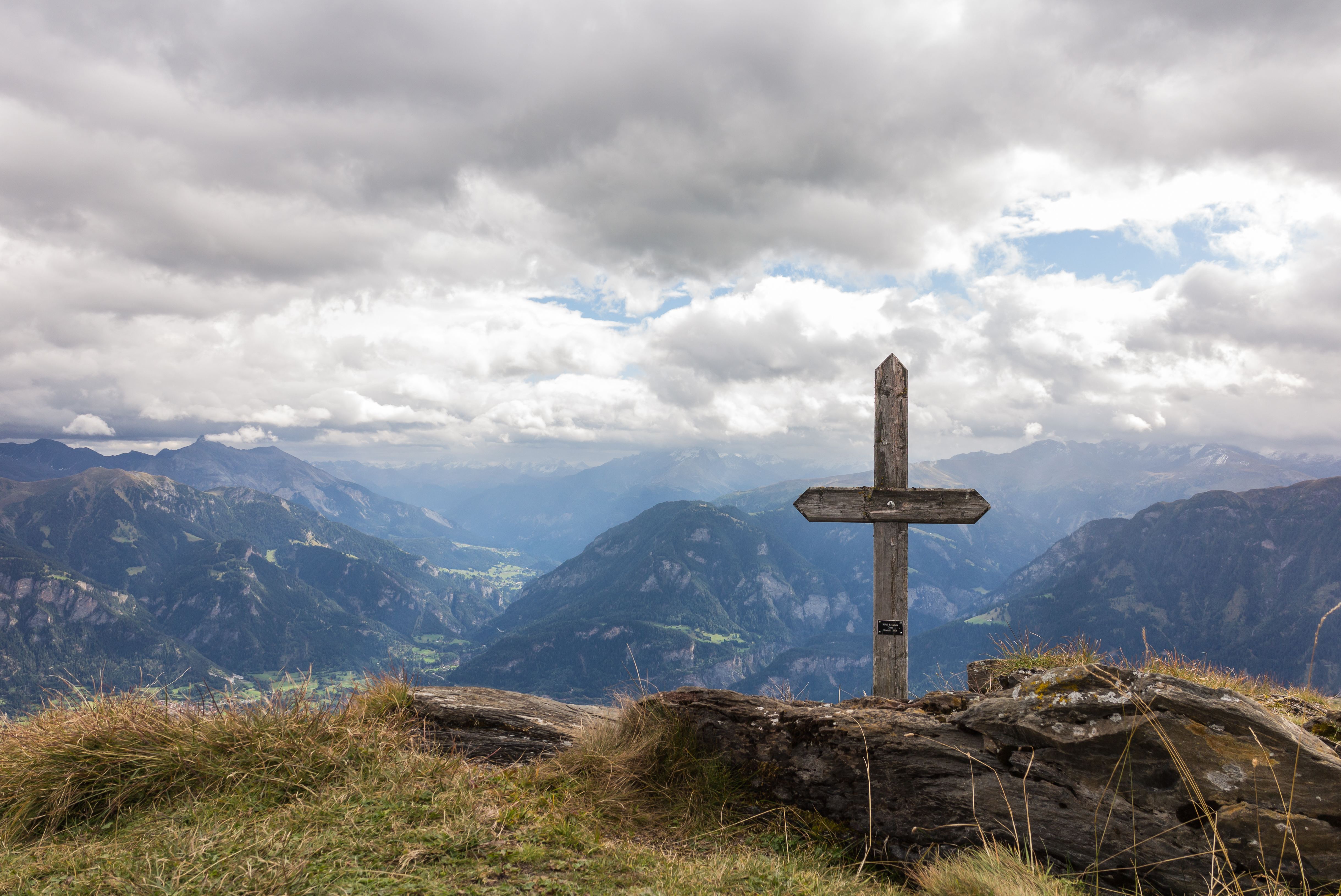 Mountain trip from Sarner Alp (1853 meter) via Präzer Höhi (2119 meter) to Tguma (2163 meter). Wooden cross on the ridge between Tguma and Präzer Höhi. There is a lot of rain coming.